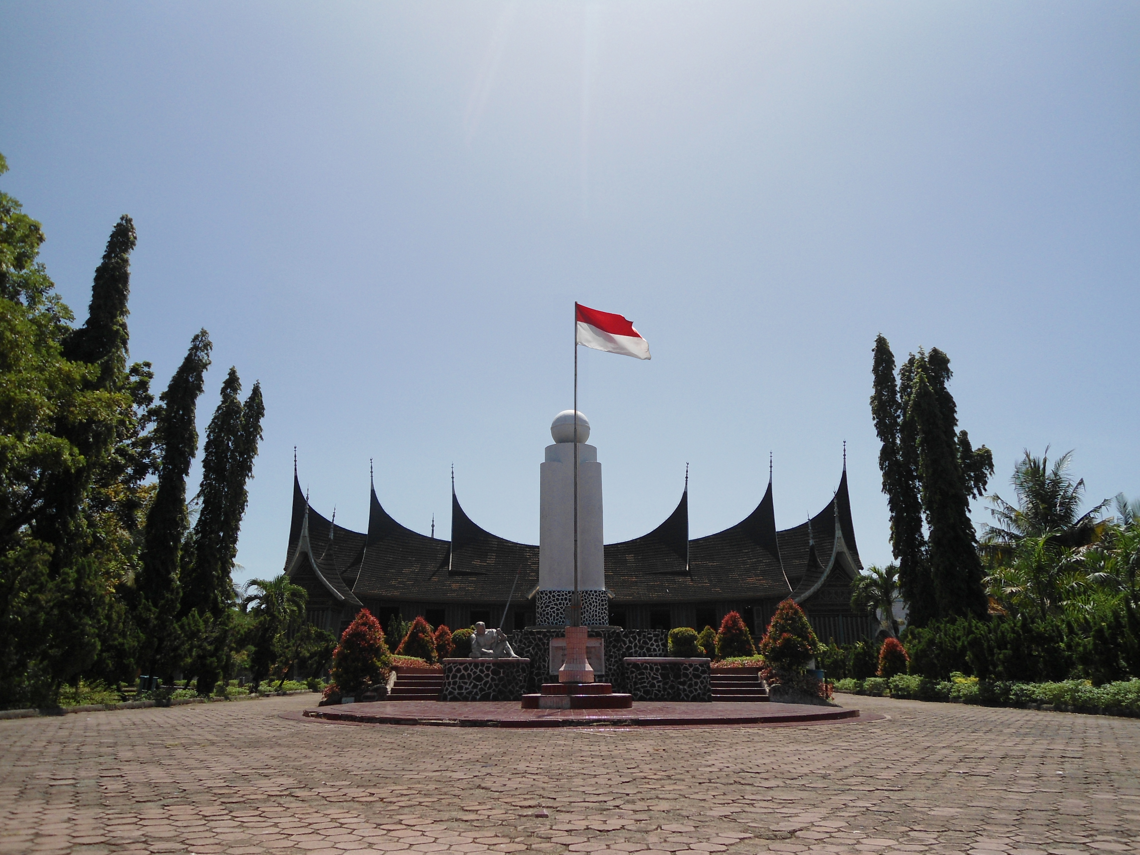 MuseumAdityawarman